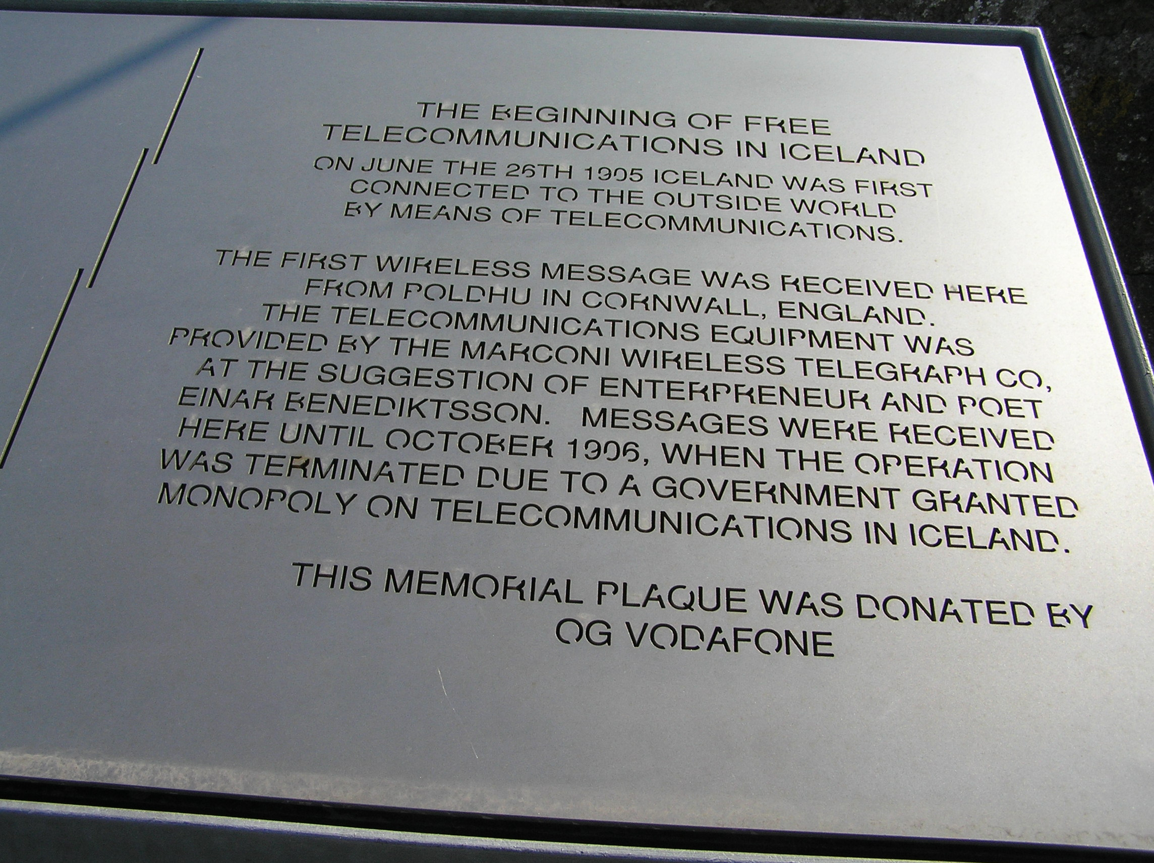 Plaque at the Hofdi house Reykjavik, to mark earlt milestones in Ieclandic telecomms